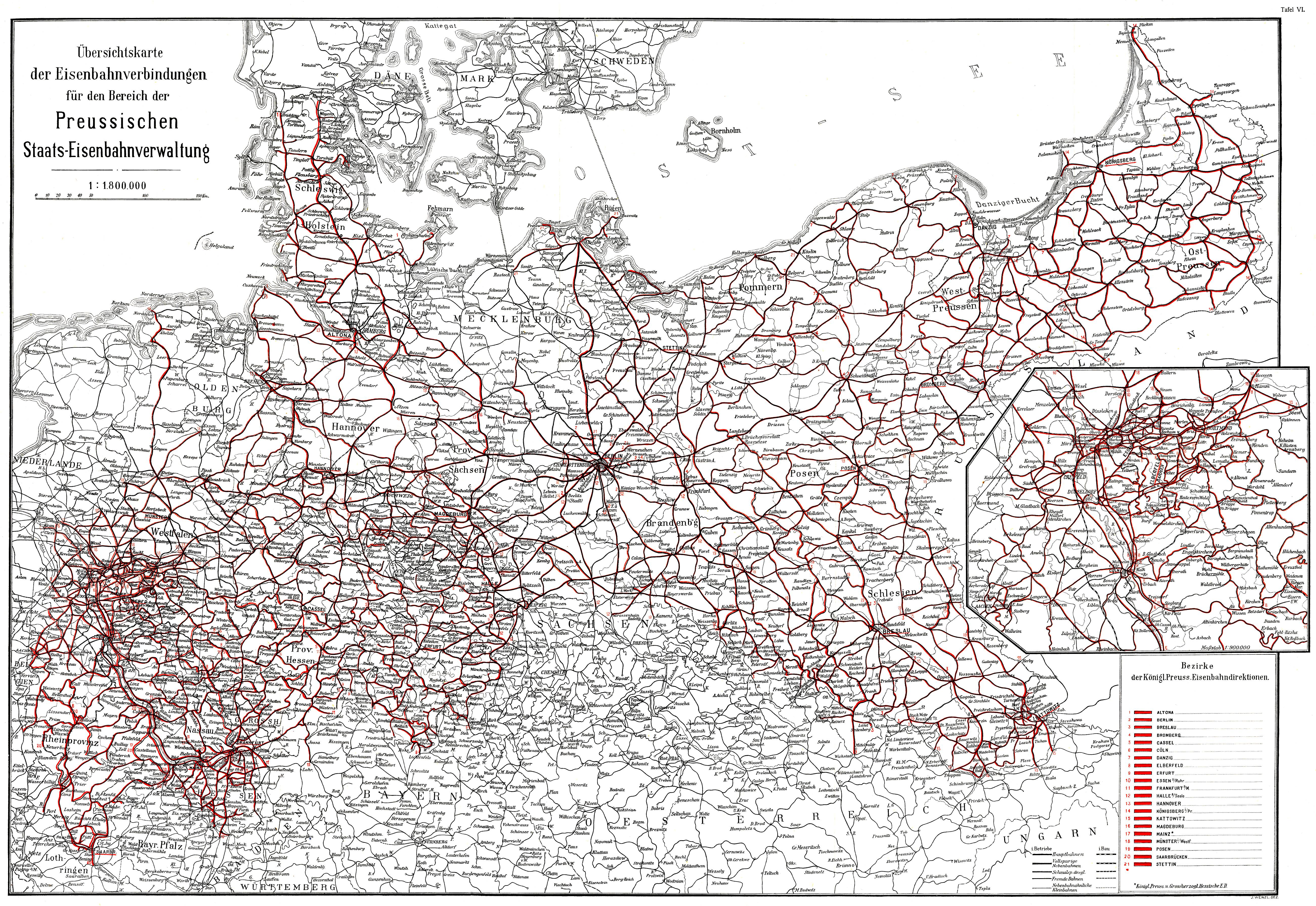 Map of Prussian State Railways